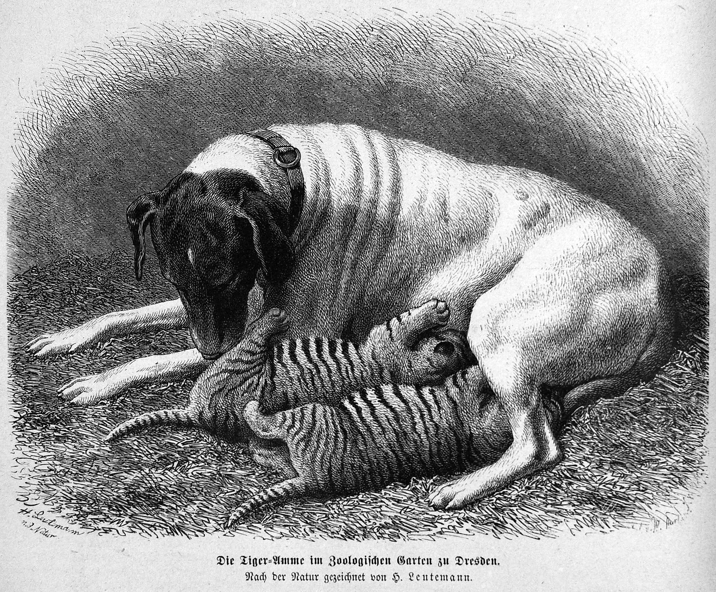 caption: "Die Tiger-Amme im Zoologischen Garten zu Dresden. Nach der Natur gezeichnet von H. Leutemann."